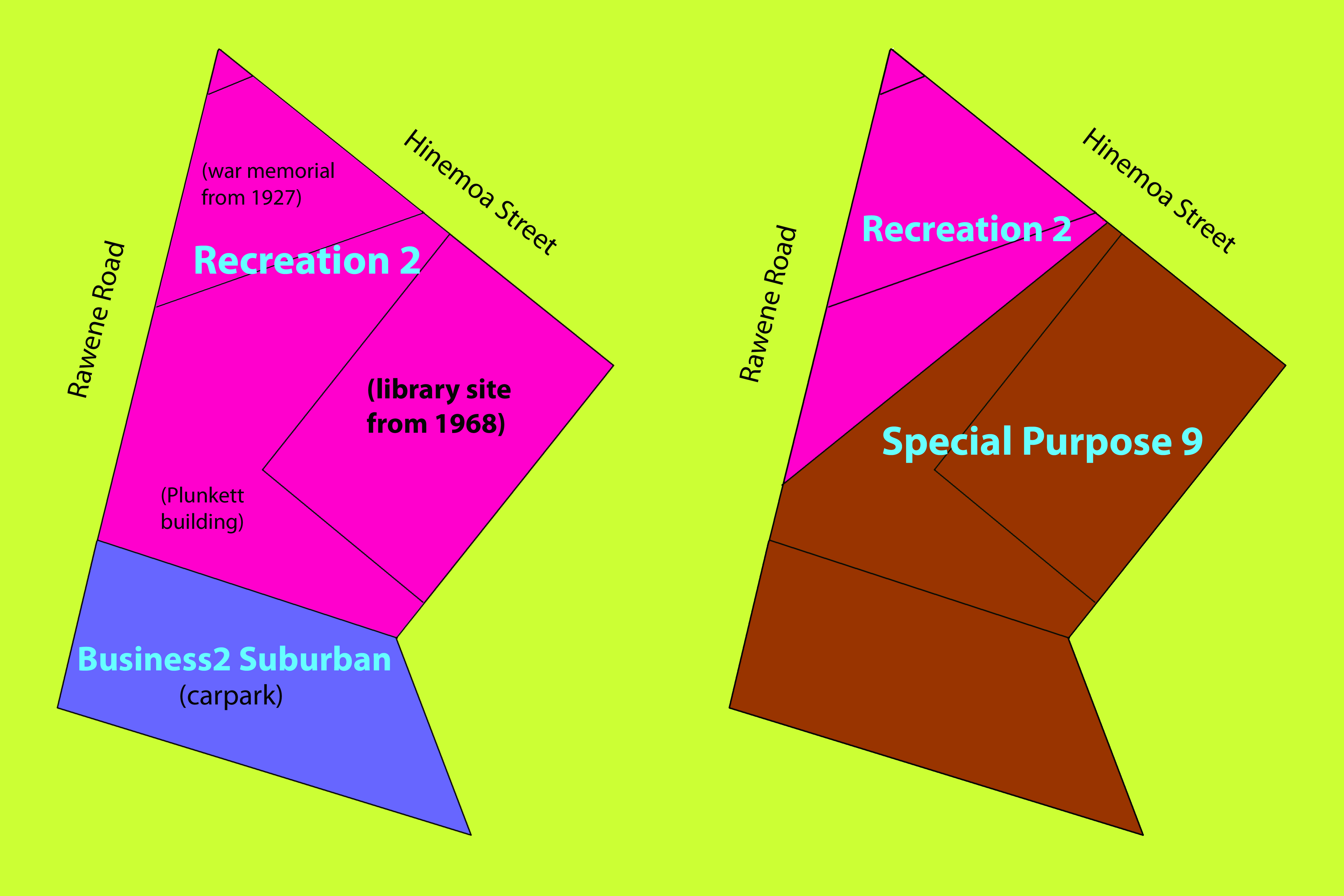 Diagram of zoning change in Nell Fisher reserve and adjacent plots of land. All lines, scale, are approximate only.